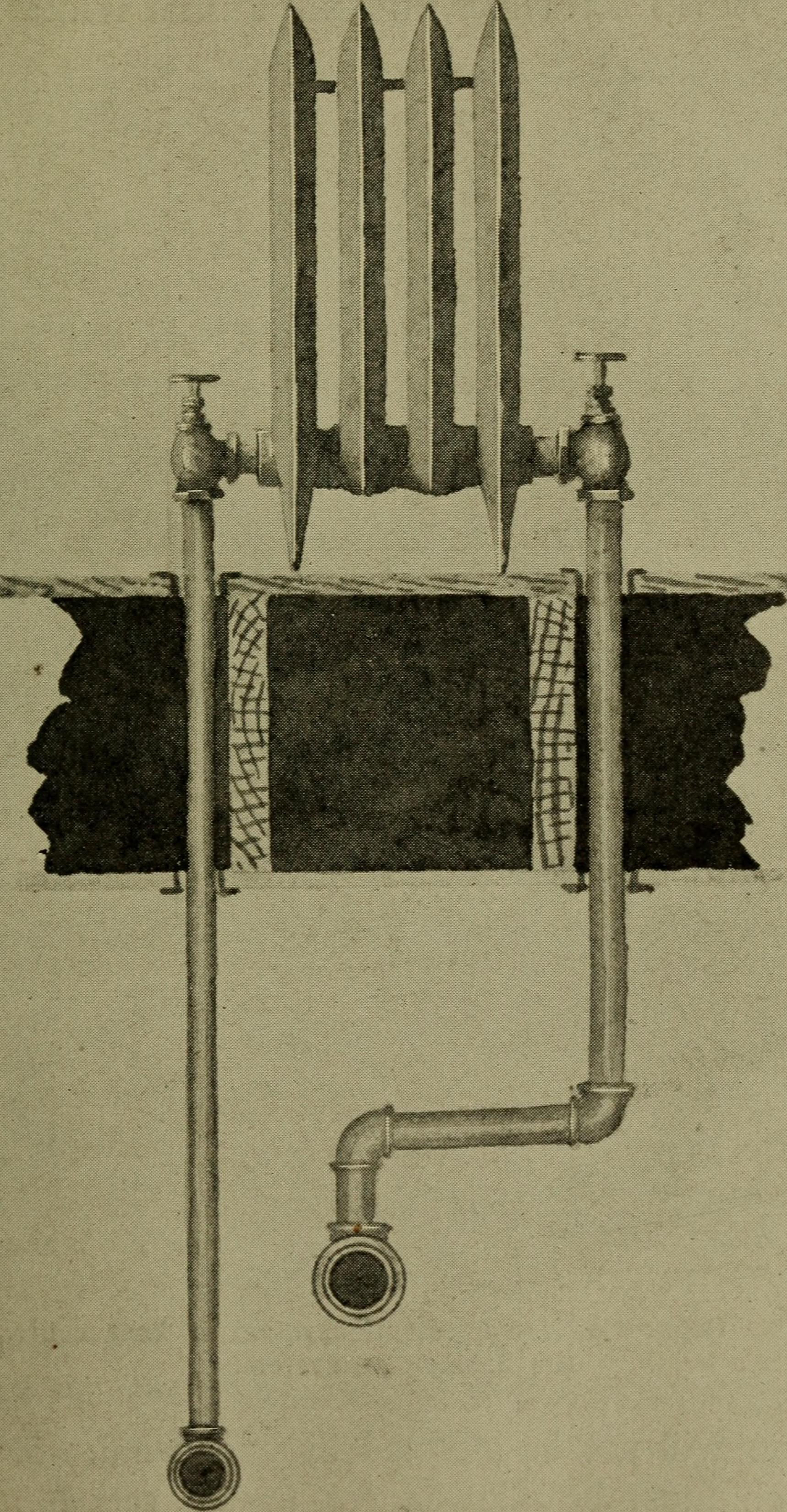 Title: Notes on heating and ventilation Year: 1906 (1900s) Authors: Allen, John Robins, 1869-1920 Subjects: Heating Ventilation Publisher: Chicago, Domestic engineering Text Appearing Before Image: Fig. 44. Expansion taken up by spring in horizontal pipes.lUsed in buildings not more than three stories in height. without any elbow. This is always undesirable, asthe connection is very rigid, not allowing for ex-pansion, and should only be used where the con- Text Appearing After Image: Fig. 45. Radiator on ^-st floor and horizontals in basement. 7) 144 Notes on Heating and Ventilation